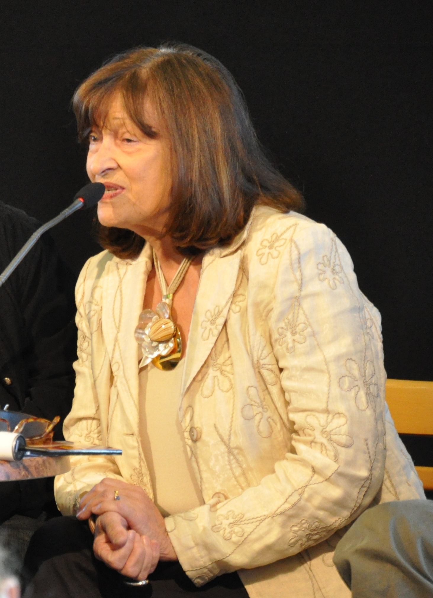 Finnish writer Nina Banerjee-Louhija at the Turku Book Fair 2009.